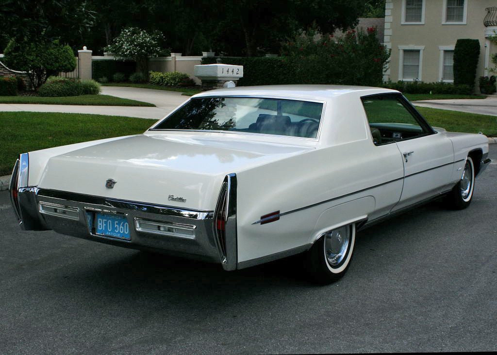 Sold new in 1971 by Barrett Cadillac of Youngstown, Ohio